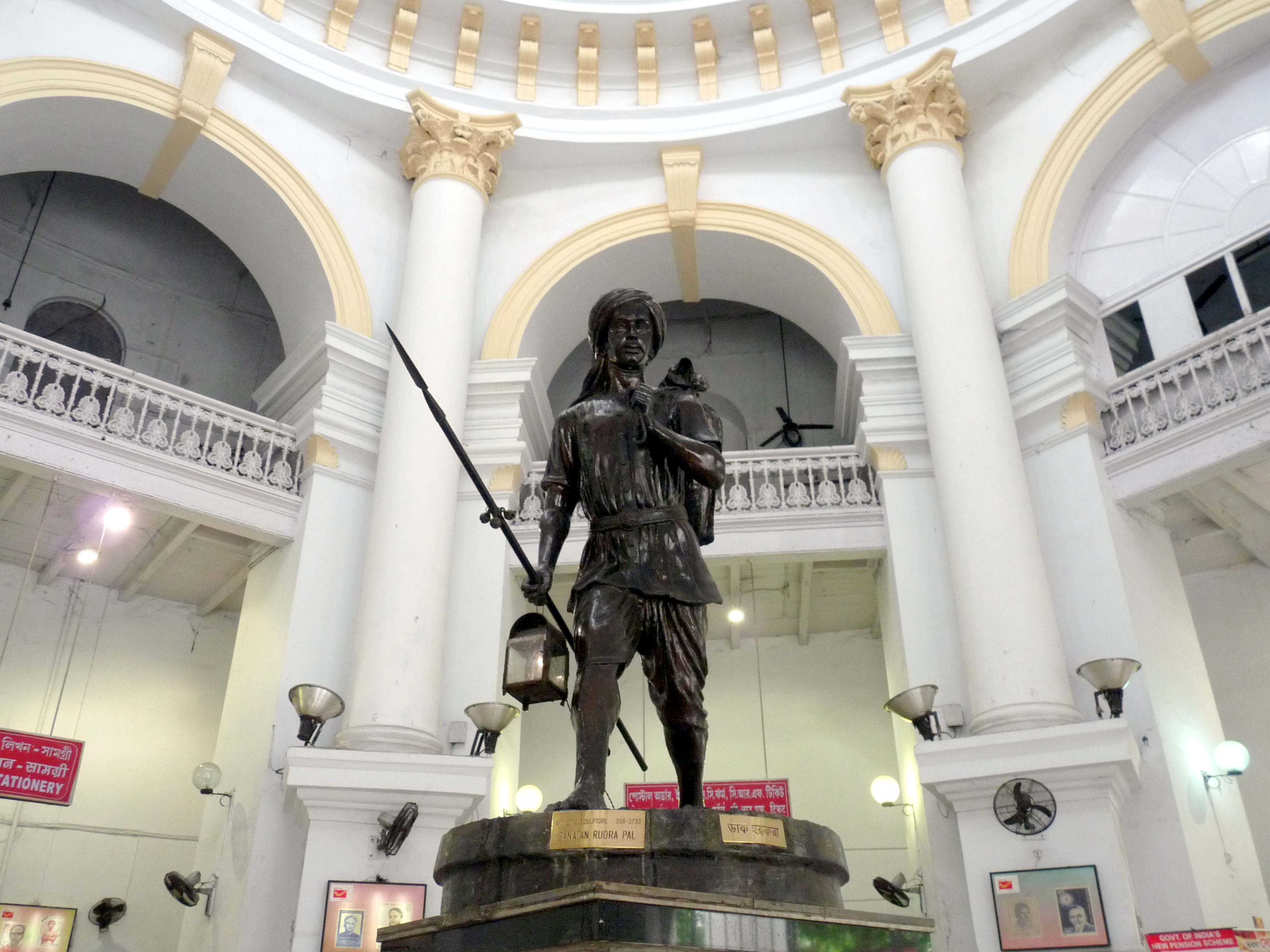 Inside the post office, Calcutta